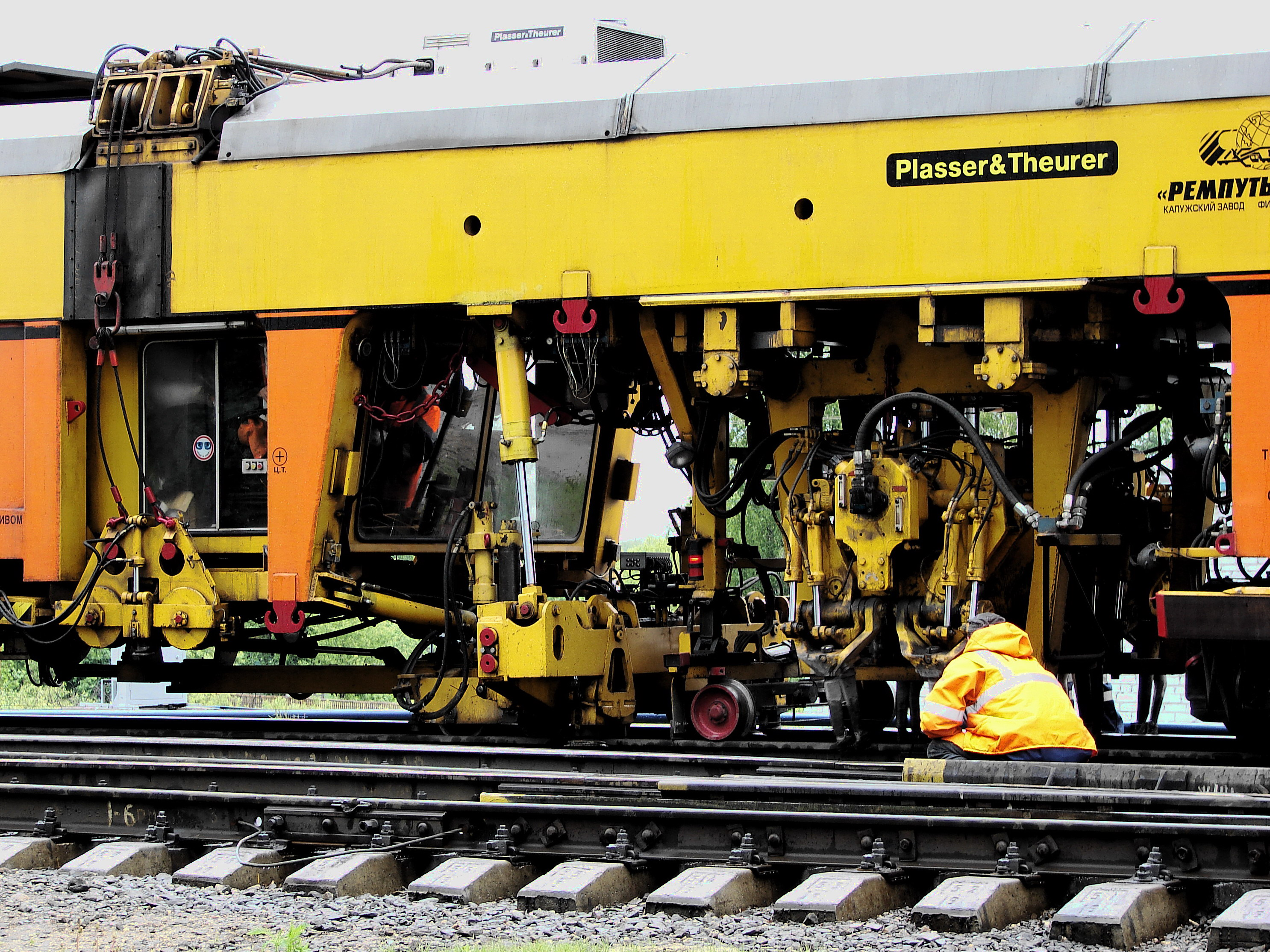 Russian Railways, Rail service vehicle Plasser&Theurer Unimat 08-275 3S, working bodies